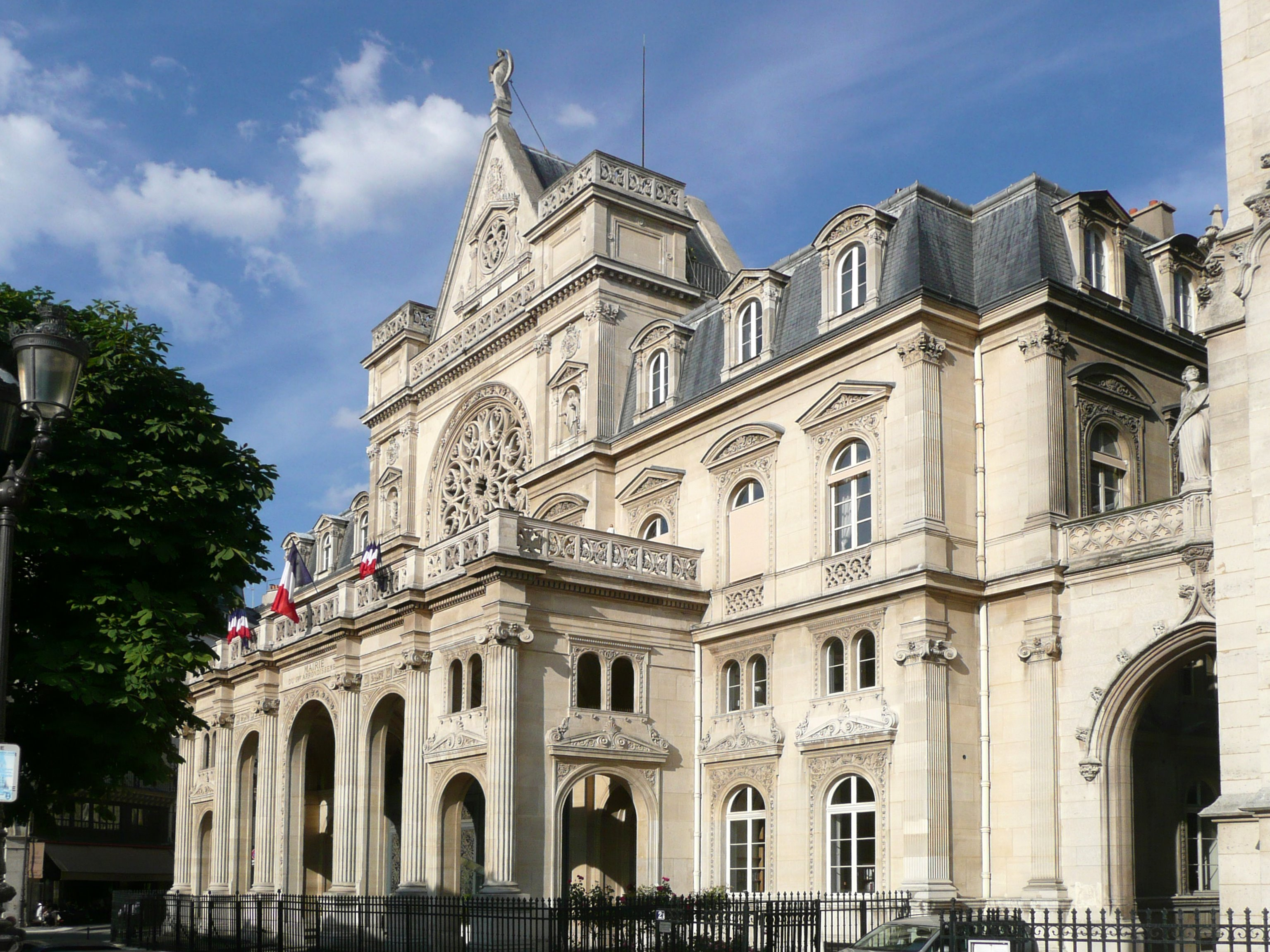 Townhall of the first district of Paris, France